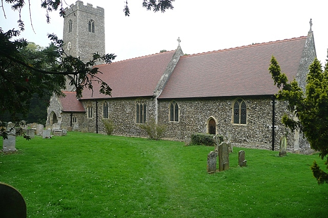 The Church of St Margaret in Sotterley, Suffolk, England. A Grade I listed medieval church.